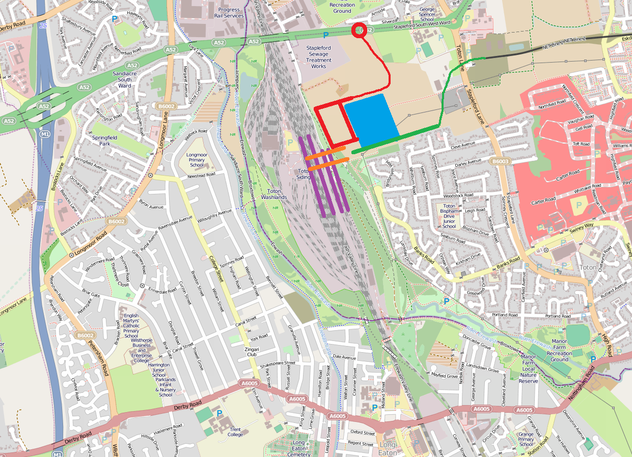 Proposed layout of the East Midlands Hub station at Toton. Blue square represents a new car park. Red lines are new A52 spur and access roads. Green line is proposed Nottingham NET Tram extension. Orange lines are new station constructions. Purple lines are new HS2 platforms. Based on information at